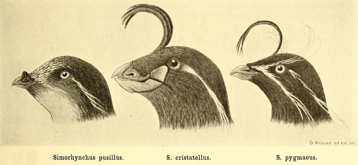 Head of Aethia species